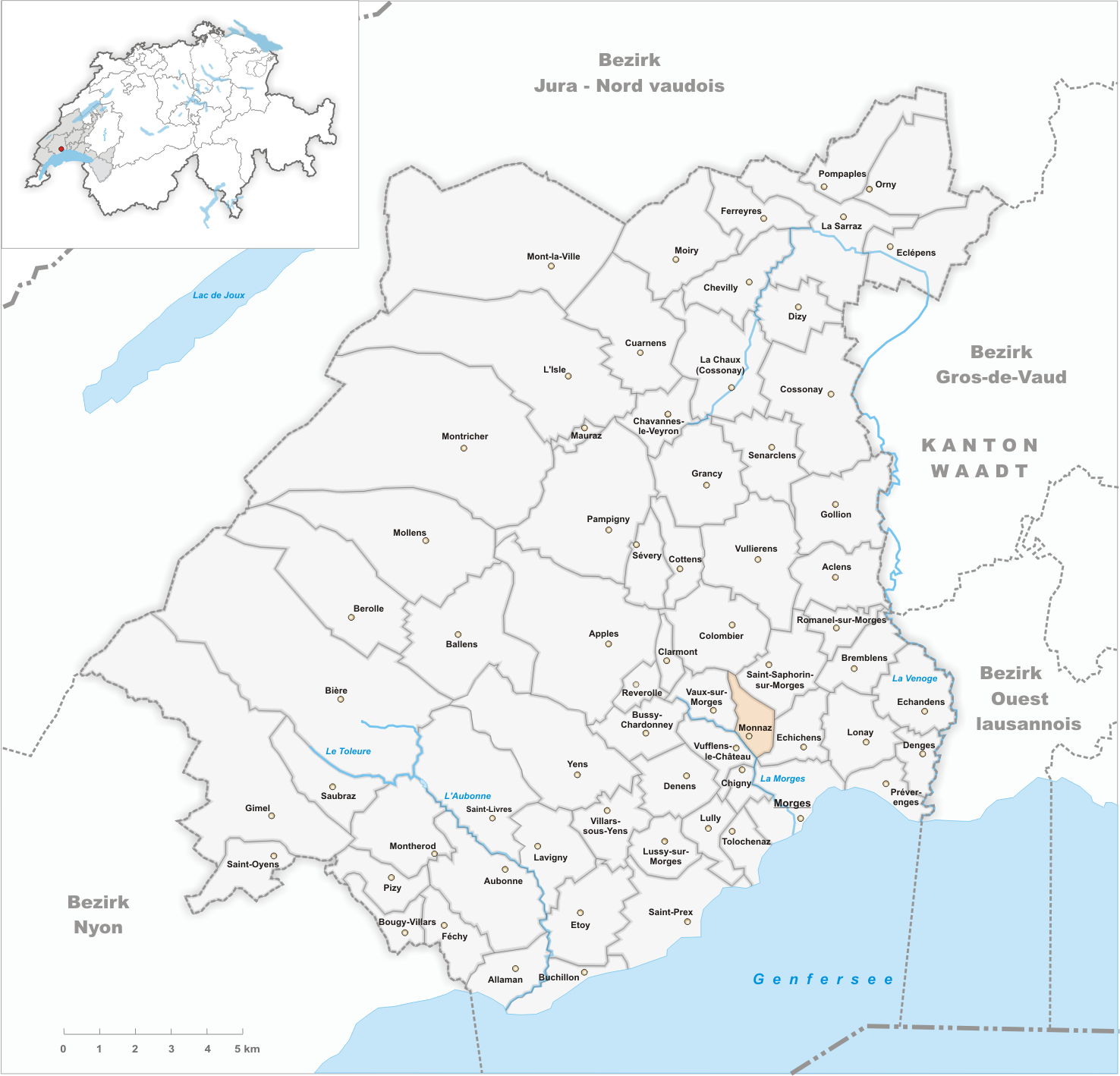 Municipality Monnaz